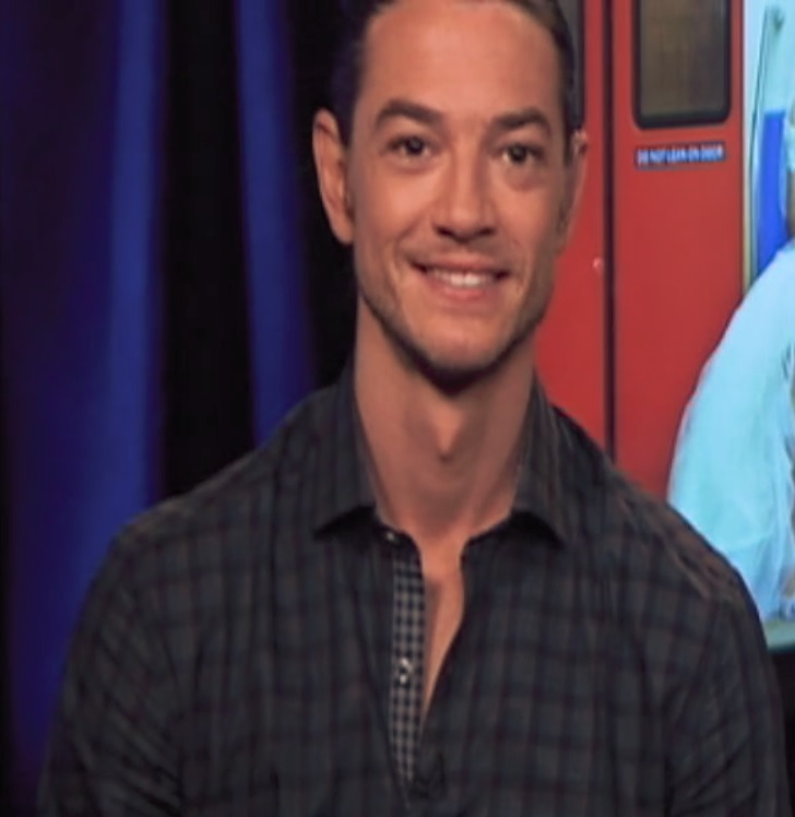 Australian actor Craig Horner discusses the 1990s and the Hindsight (TV series) with the Trending Report